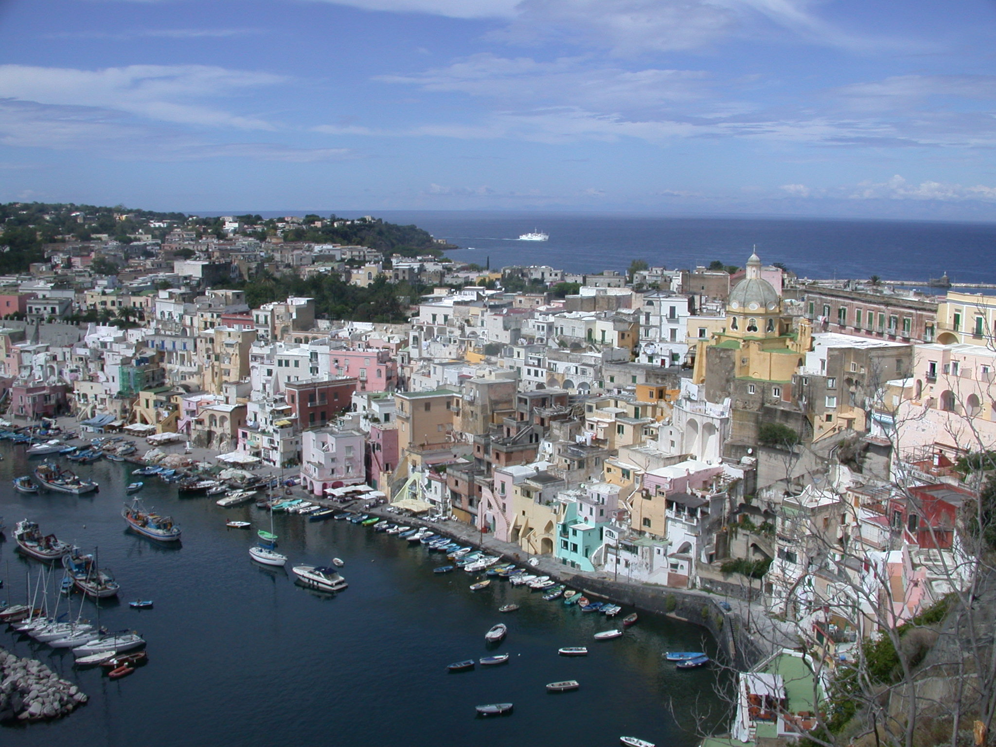 Italy - island of Procida - Little harbour of Corricella.